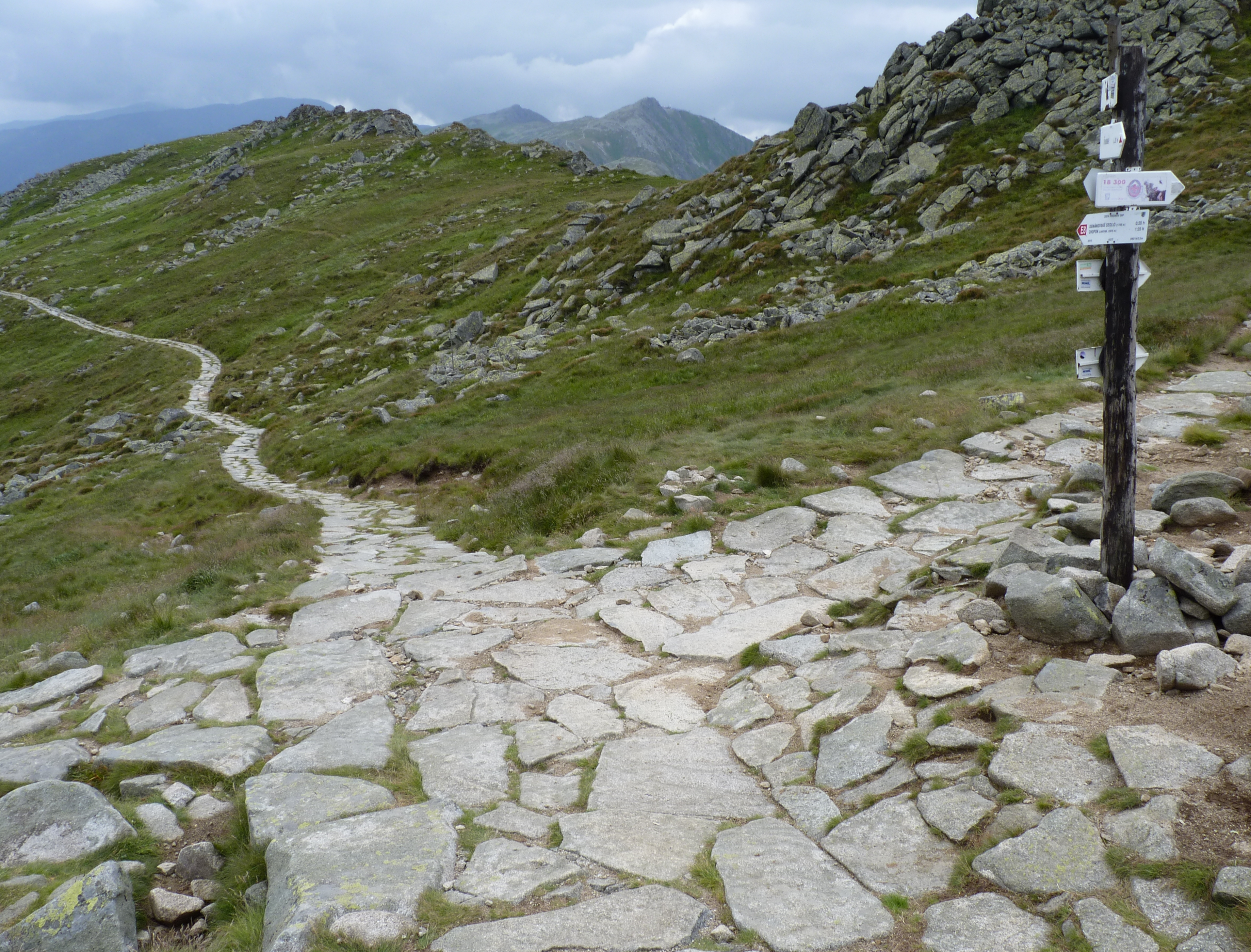 Low Tatras, Slovakia